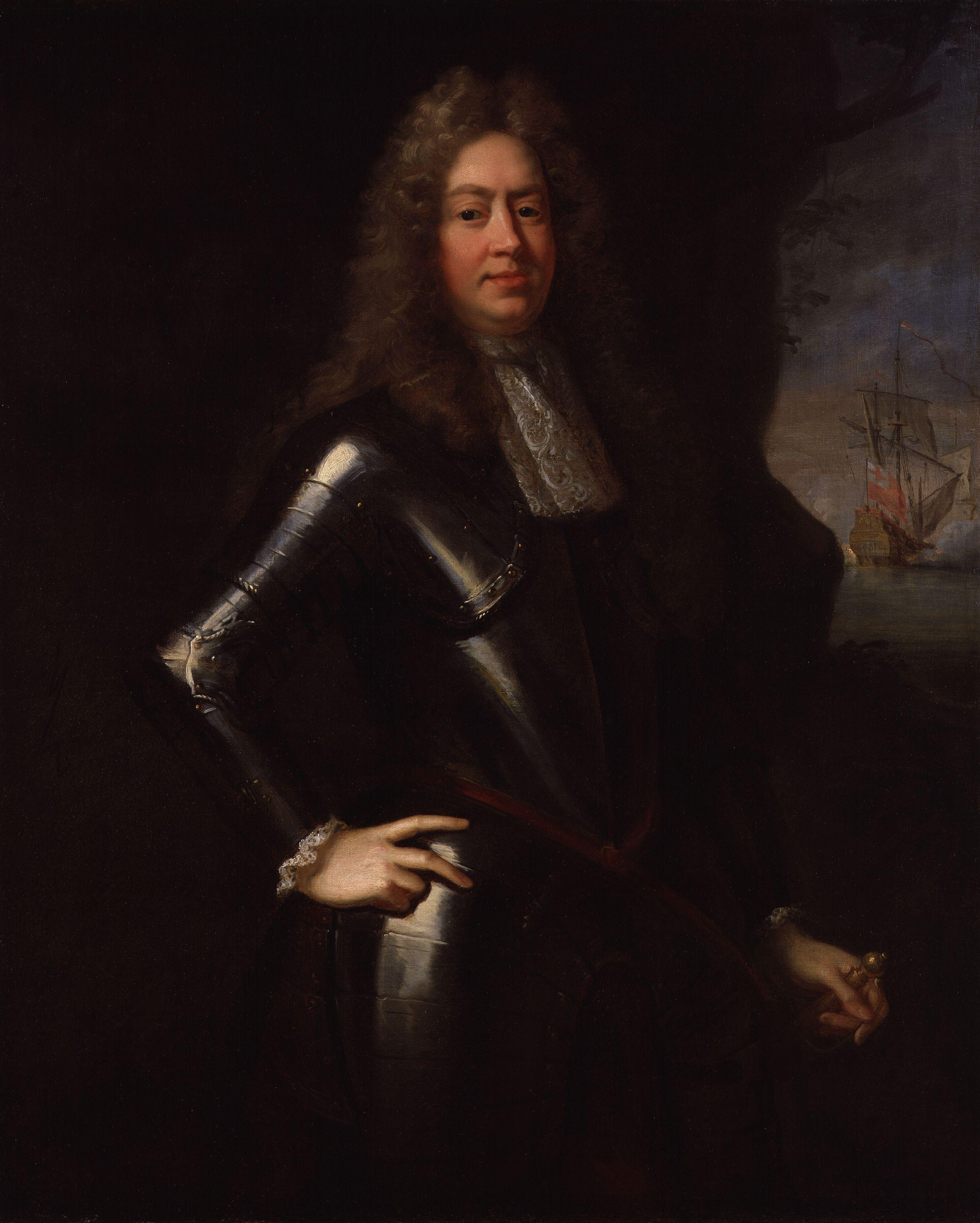 George Legge, 1st Baron Dartmouth, by John Riley (died 1691), given to the National Portrait Gallery, London in 1882. All images in this batch have been confirmed as author died before 1939 according to the official death date listed by the NPG.